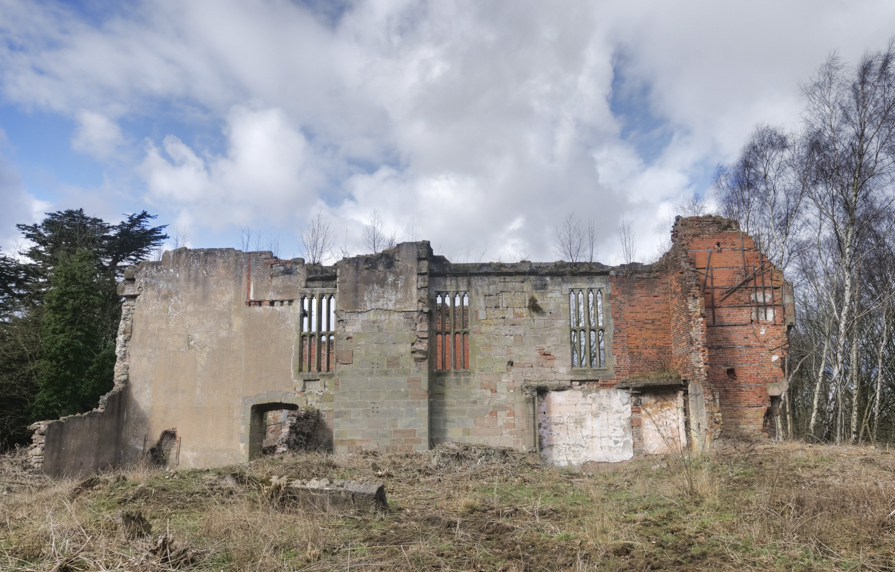 The Ruins of Beaudesert Hall in Cannock Chase, Staffordshire.